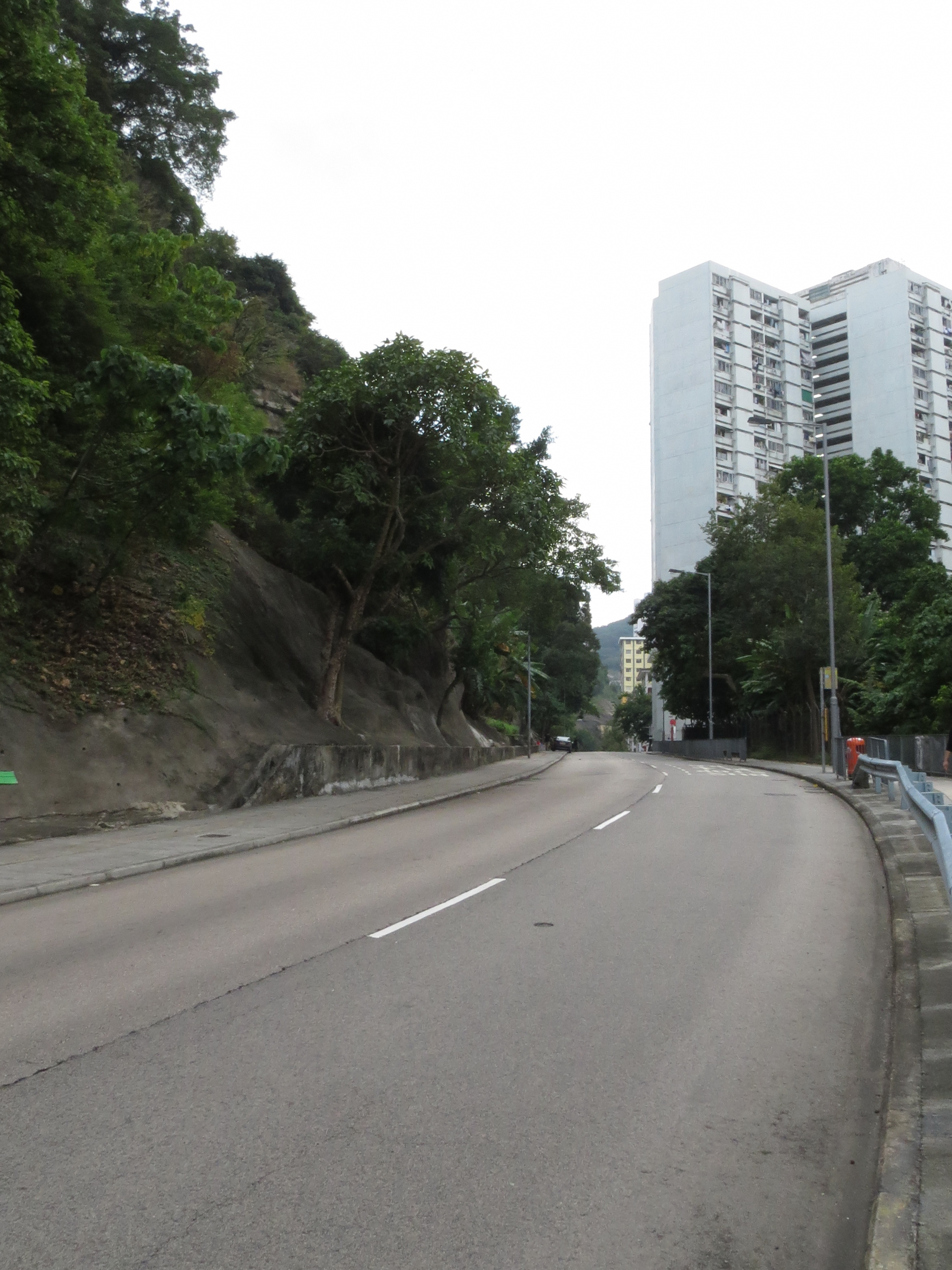 A Kung Ngam Road, Hong Kong. Ming Wah Dai Ha Block A is the building at the right.